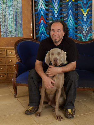 Nicola Rosini Di Santi photo